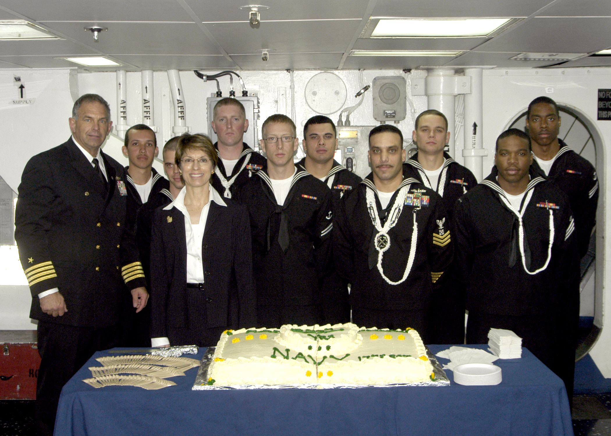 Reykjavik, Iceland (Oct. 13, 2006) - USS Wasp (LHD 1) Commanding Officer Capt. Michael Hawley, U.S. Ambassador to Iceland Carol van Voorst, and Sailors from the multipurpose amphibious assault ship stand in front of the cake for the U.S. Navy's 231st birthday. Wasp is the first U.S. Navy ship to visit Iceland after the closing of the Naval Air Station in Keflavik, Iceland. U.S. Navy photo by Mass Communication Specialist Seaman Robbie Stirrup (RELEASED)